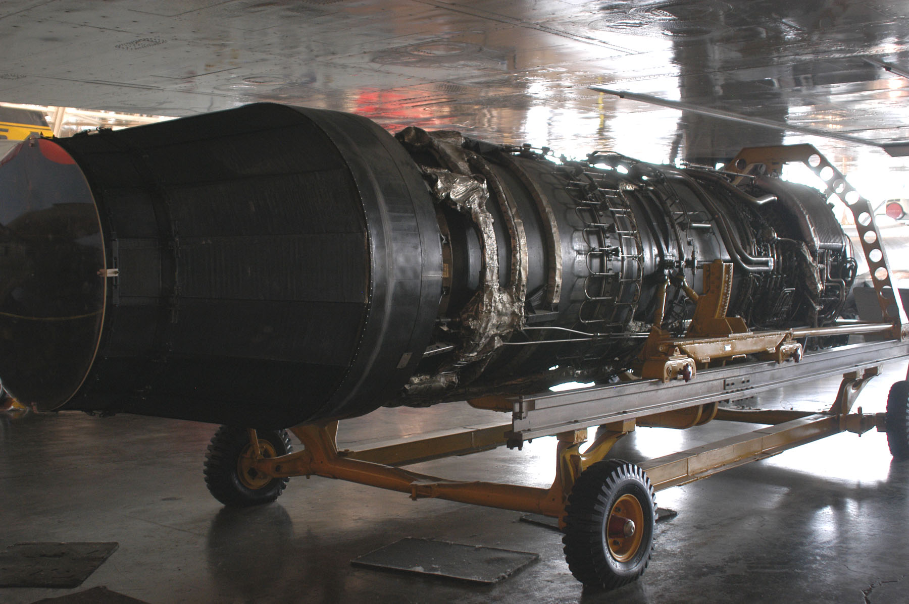 Rear side of a General Electric YJ93-G-3 engine at National Museum of the United States Air Force.